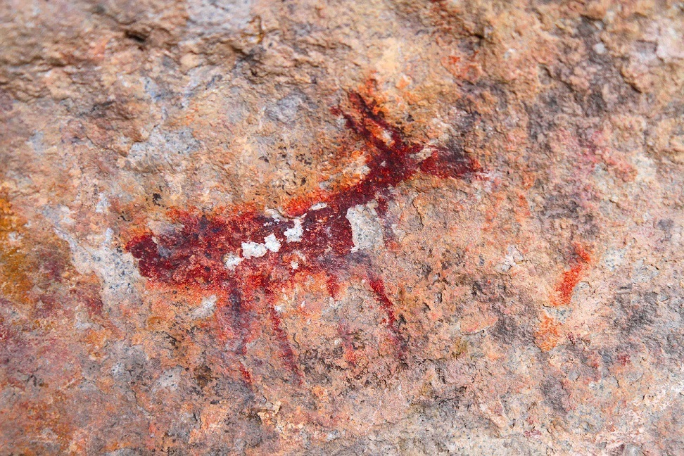 This rock painting of a deer is painted on a small section of South Mountain at Hueco Tanks State Park. Once a paradise filled with plants and animals, the area sustained generations of the Jornada Mogollon Native Americans. A thousand years ago, the area had a climate much like modern day Maryland. Thirty miles outside El Paso, Texas, this plant and animal sanctuary lies in an otherwise inhospitable, arid desert. For more information, visit (U.S. Army photo by Sgt. James Avery, 16th Mobile Public Affairs Detachment)